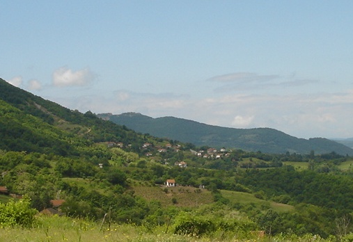 village of Prikovci near Kratovo, Macedonia